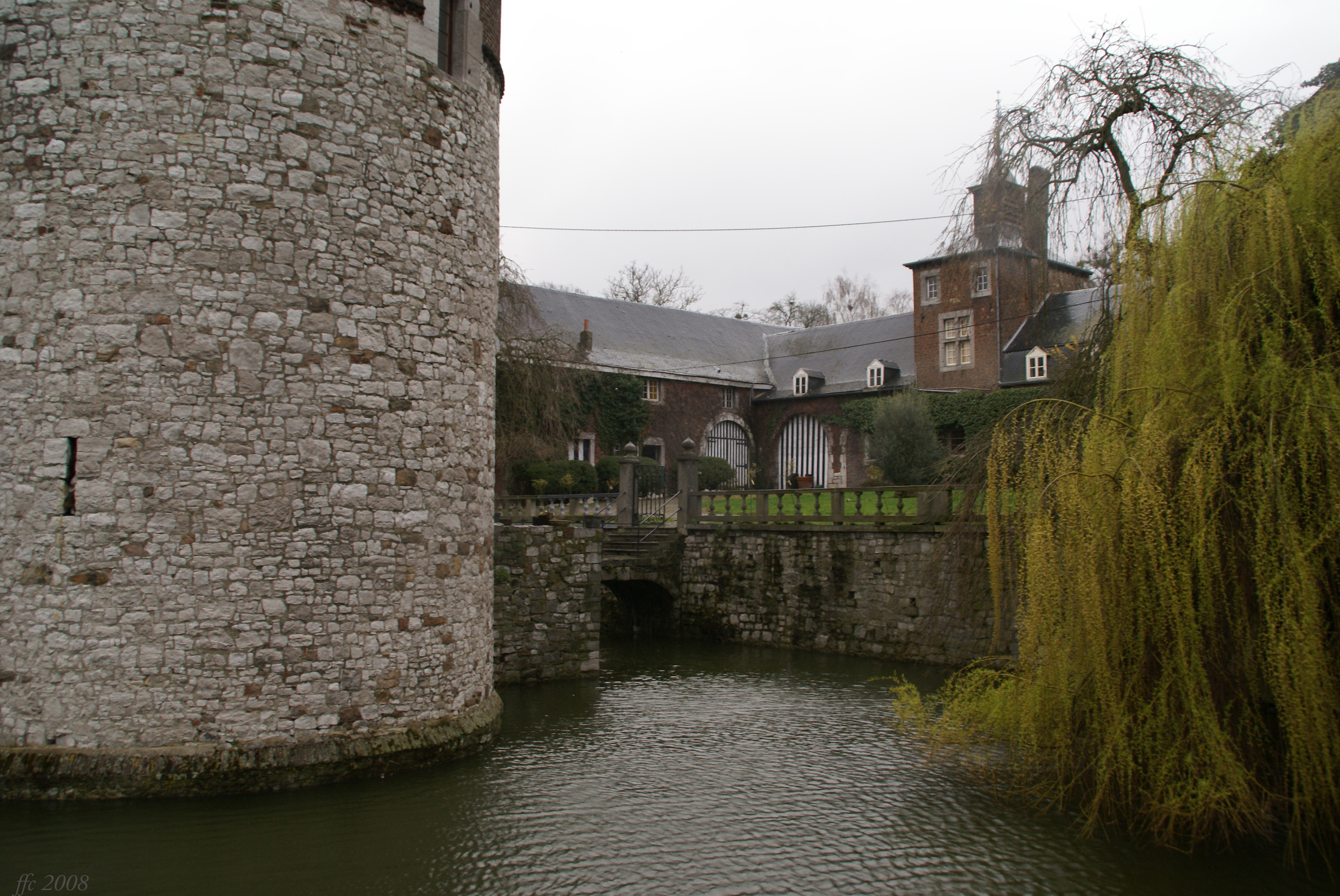 Ivoz-Ramet (Ramet), Belgium: Dunjon and farm from Ramet Castle